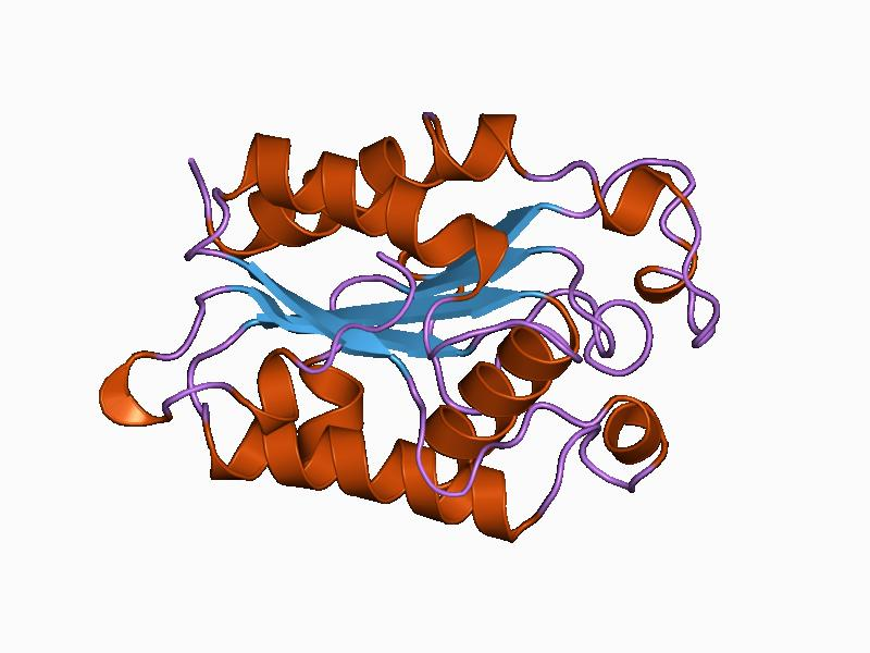 Cartoon representation of the molecular structure of protein registered with 1cex code.